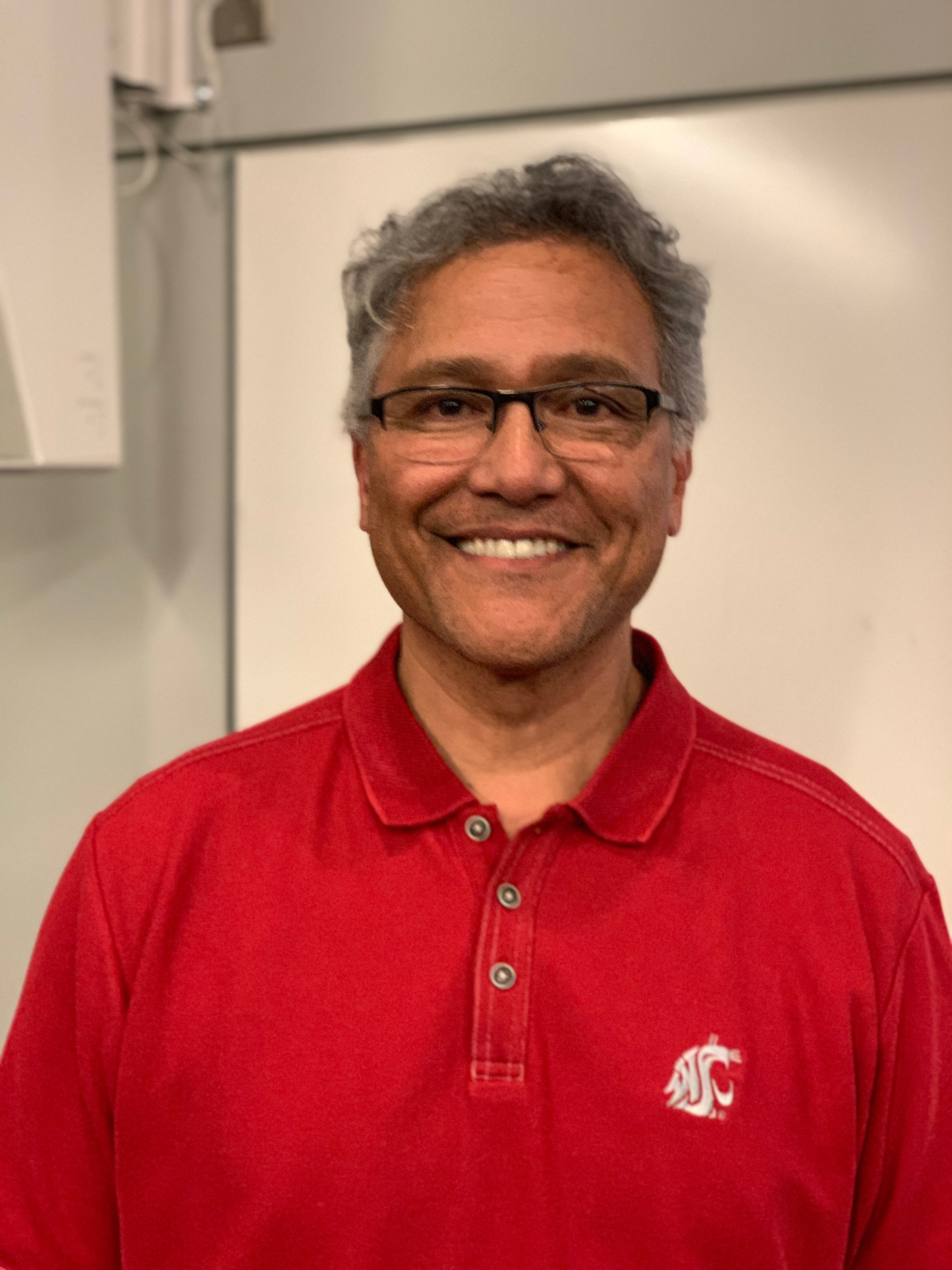 Jack Thompson, former WSU quarterback, at current WSU coach Mike Leach's class on Insurgency and Warfare.